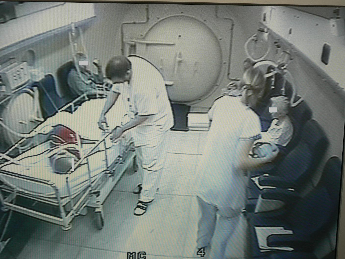 Jobs at HBO